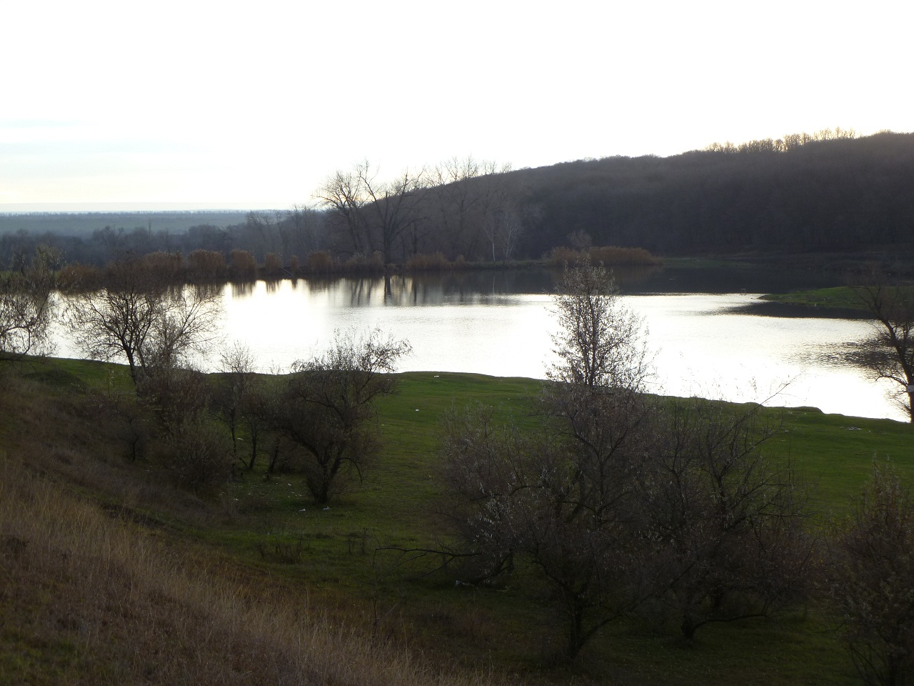 Lake near Spitsevka